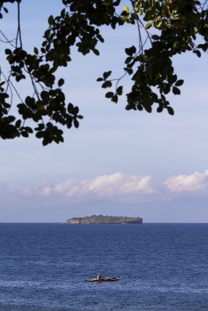 Picture of Pescadore Island, taken from the cliff in Quo vadis resort in Panagsama Beach